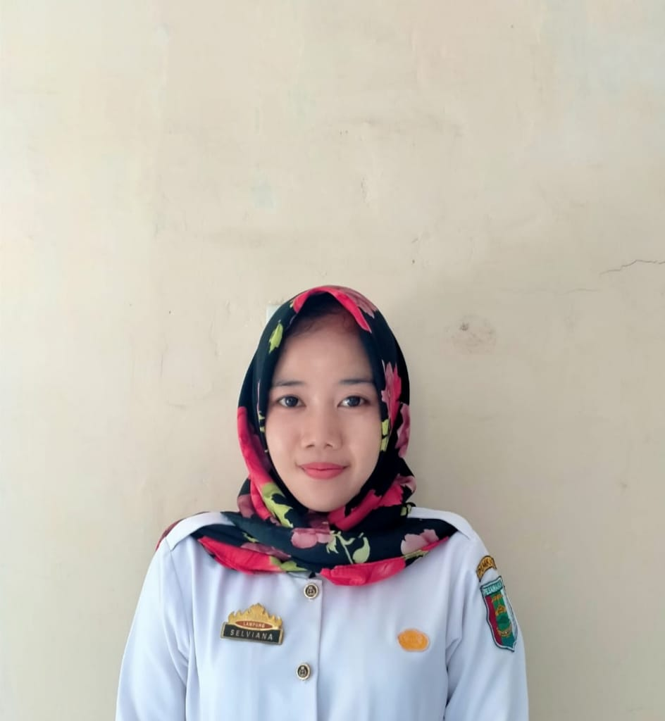 skretaris desa